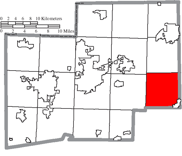 Map of the municipal and township boundaries of Stark County, Ohio, United States, as of the 2000 census, with the location of Paris Township highlighted. Township borders are shown only in unincorporated areas in order to differentiate incorporated and unincorporated areas more clearly.